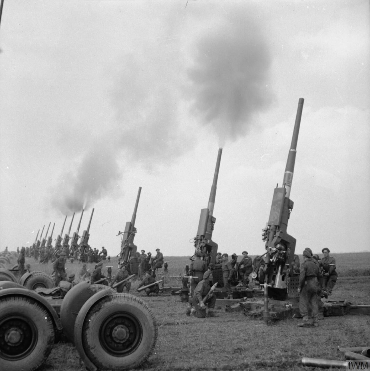 The British Army in North-west Europe 1944-45 3.7-inch guns of 60th (City of London) Heavy Anti-Aircraft Regiment fire a salvo to celebrate the Allied victory in Europe, 6 May 1945.